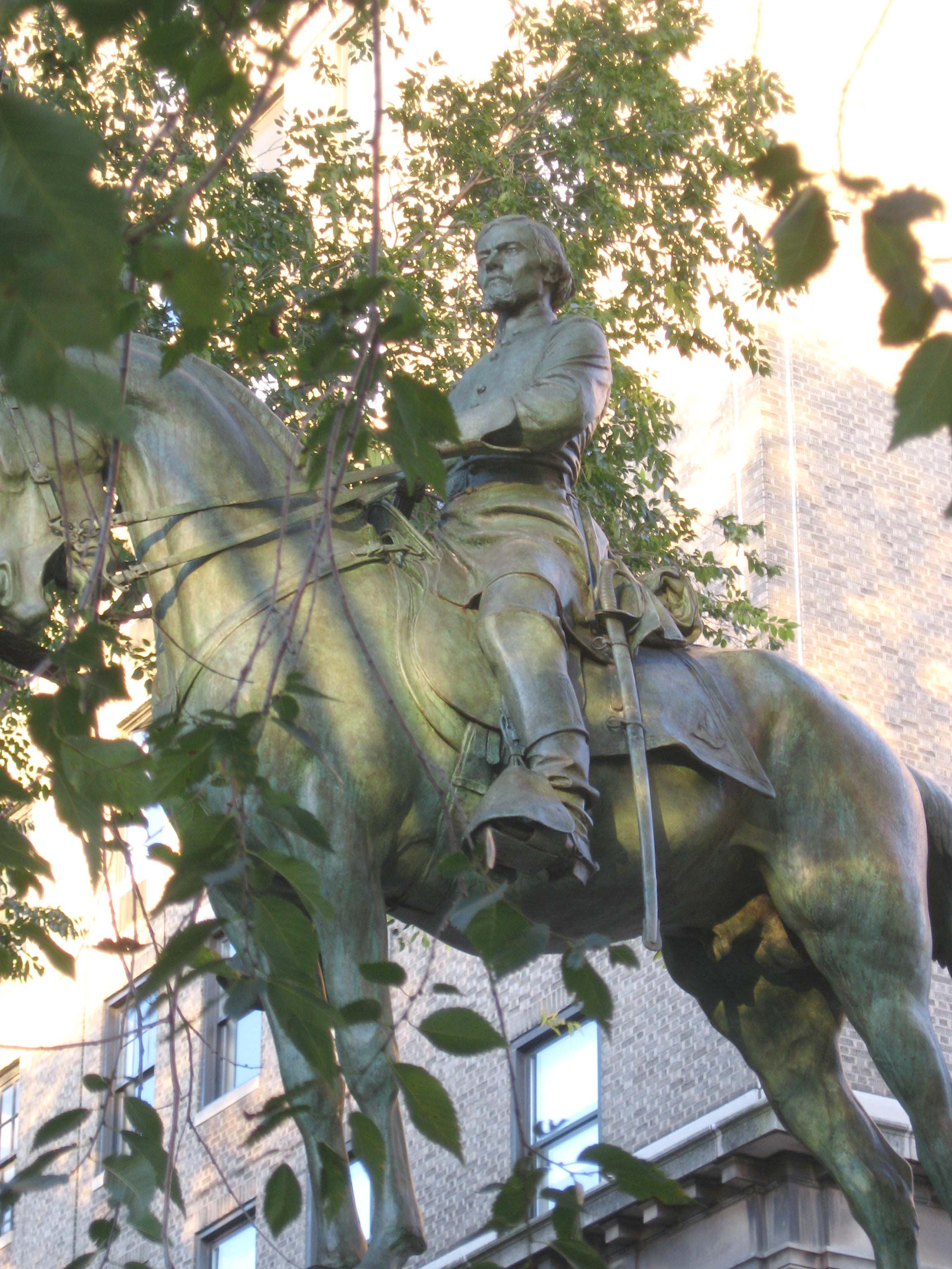 Looking north and up at statue of Franz Sigel at Riverside Drive and West 106th Street, late on a sunny afternoon